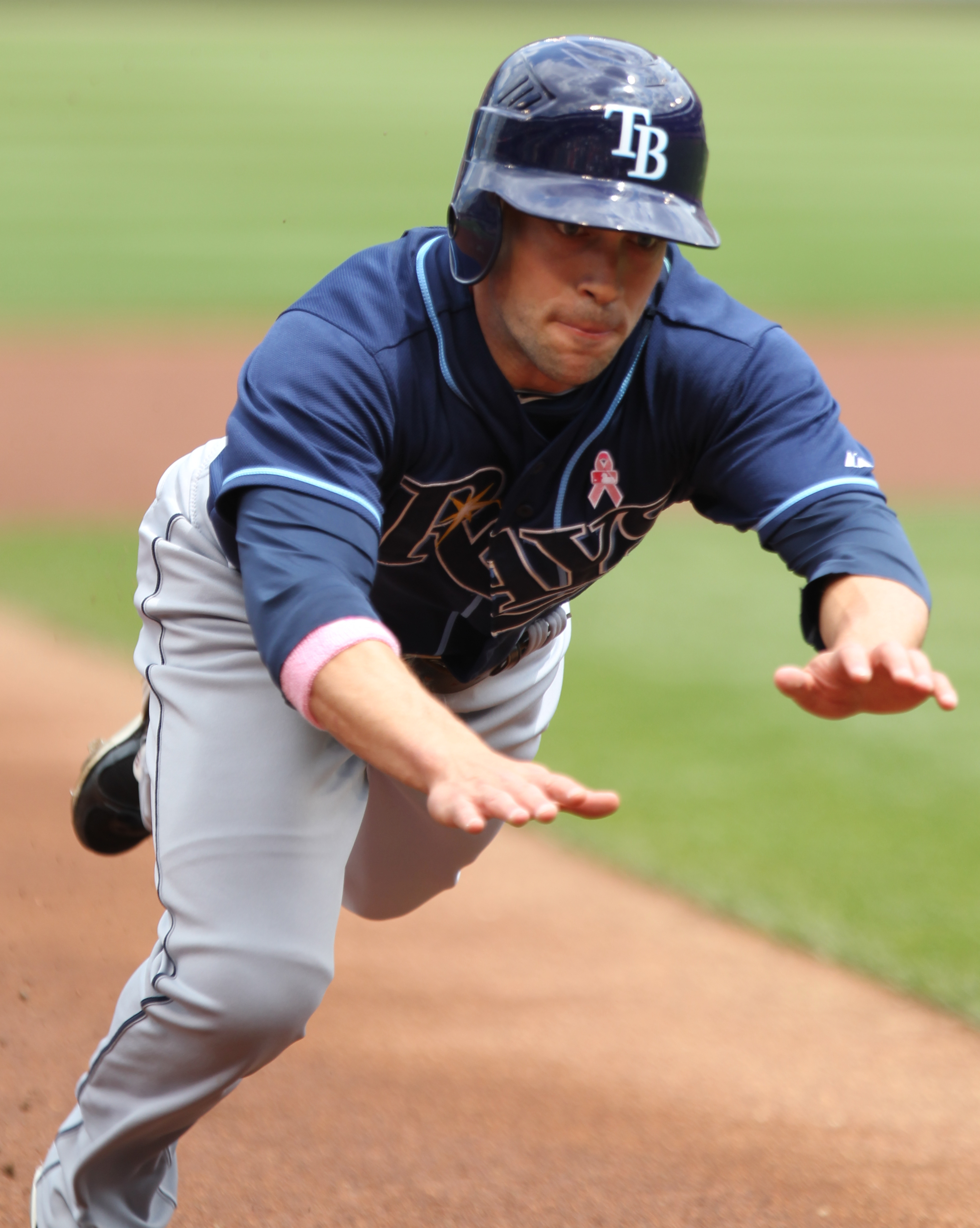 Tampa Bay Rays' Sam Fuld diving